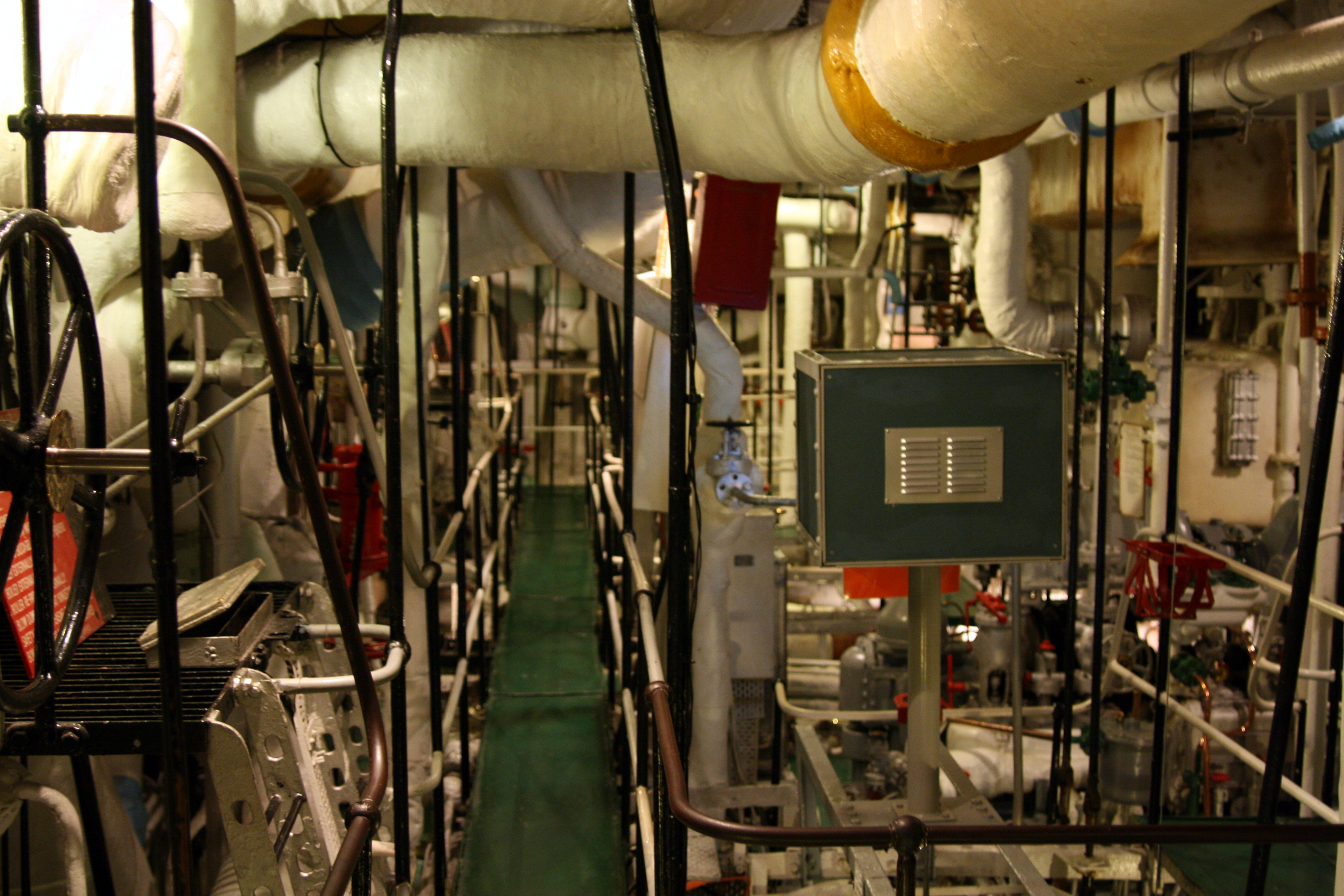 First floor of the boiler room on HMS Belfast